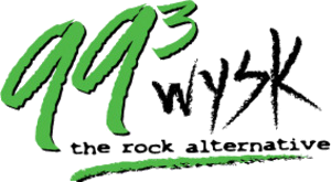 This is a logo for WVBX.